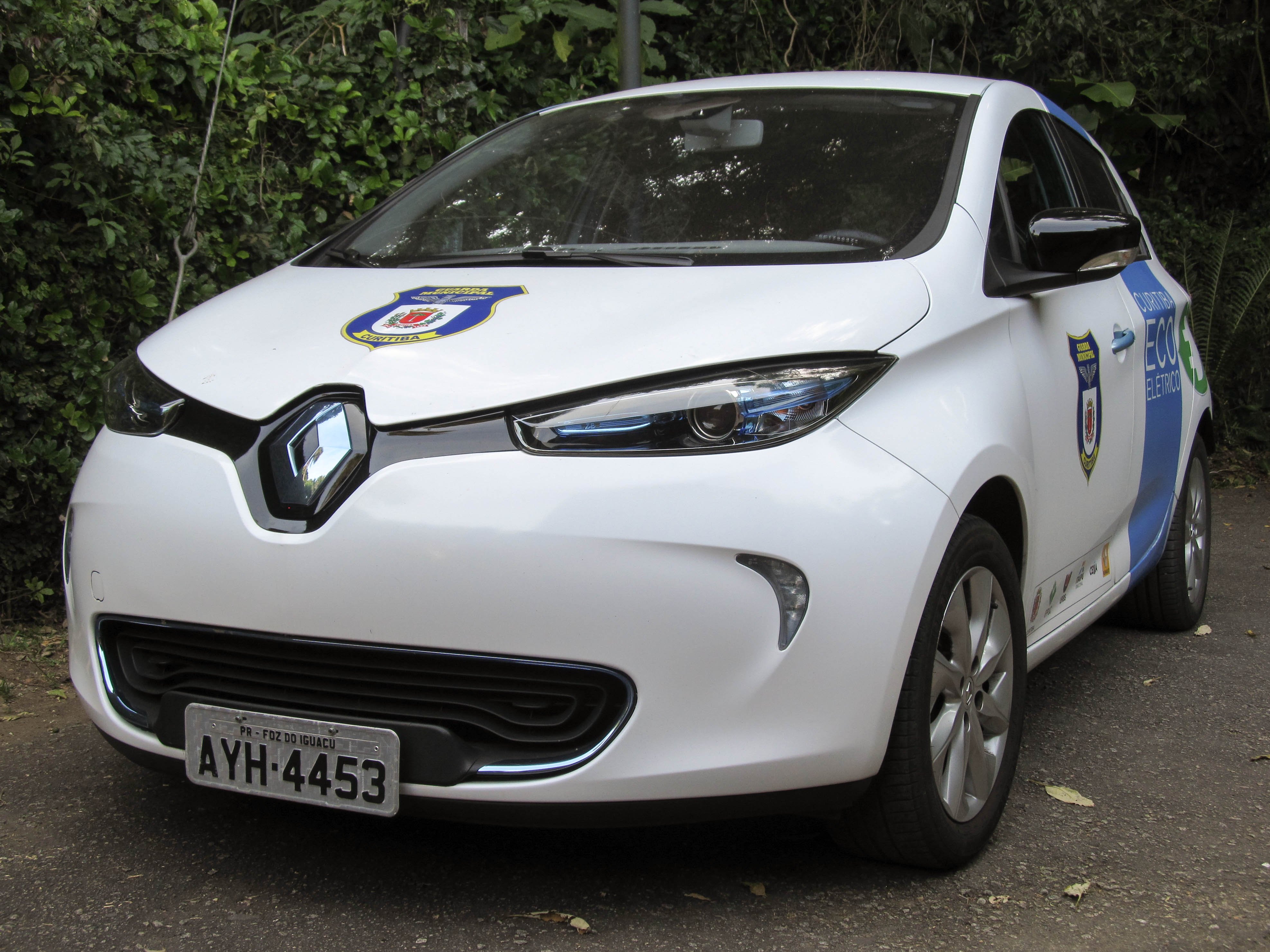 Renault Zoe in service for Curitiba's City Guard. Curitiba, Brazil.